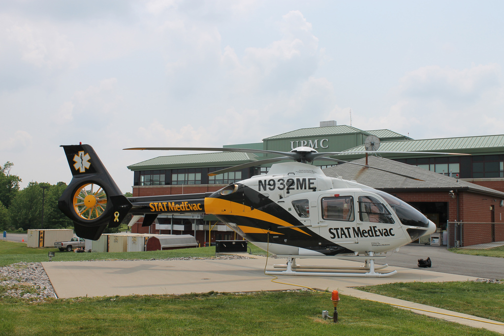 STAT Medevac at a University of Pittsburgh Medical Center facility.